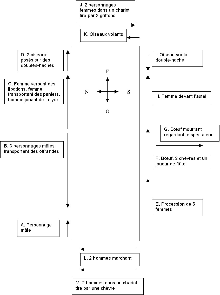 The thirteen scenes depicted on the Aghia Triada sarcophagus. Crete